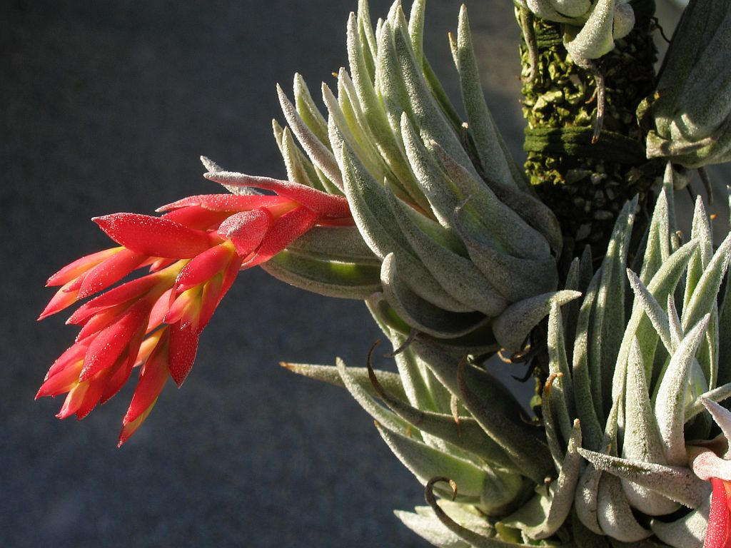 Tillandsia brachyphylla in cultivation at the Botanical Garden of Heidelberg, Germany.